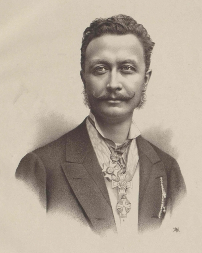 Depicted person: Géza Zichy